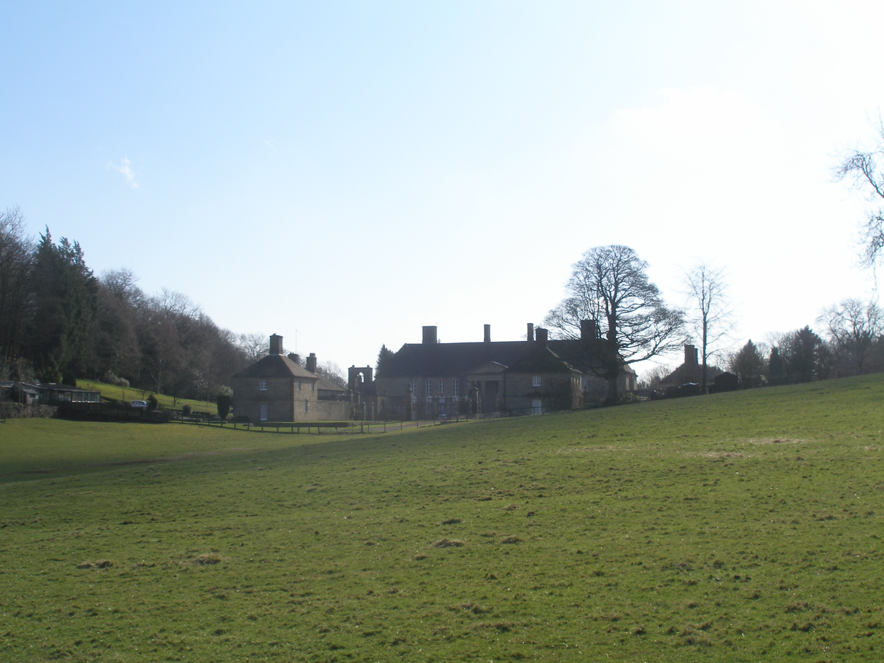 Gledstone Hall